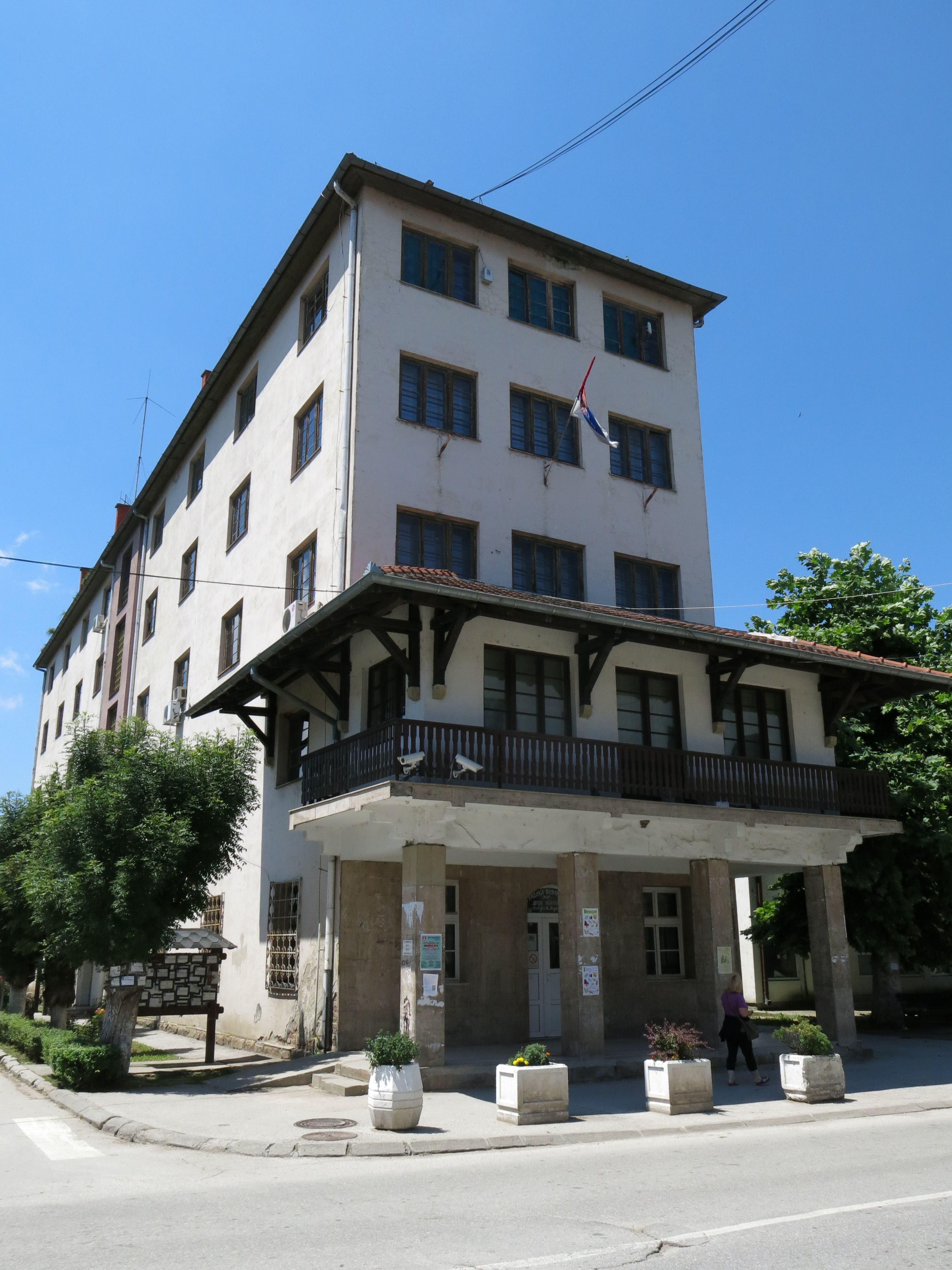 Ljig, Children's library